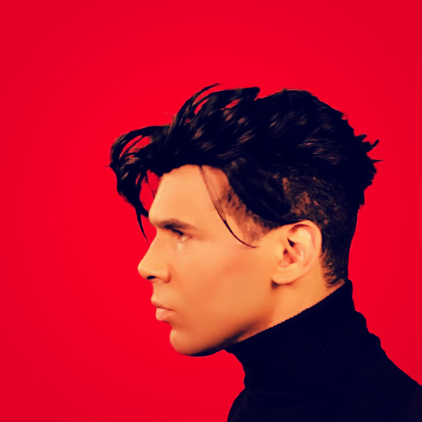 Al Walser Side Head Shot